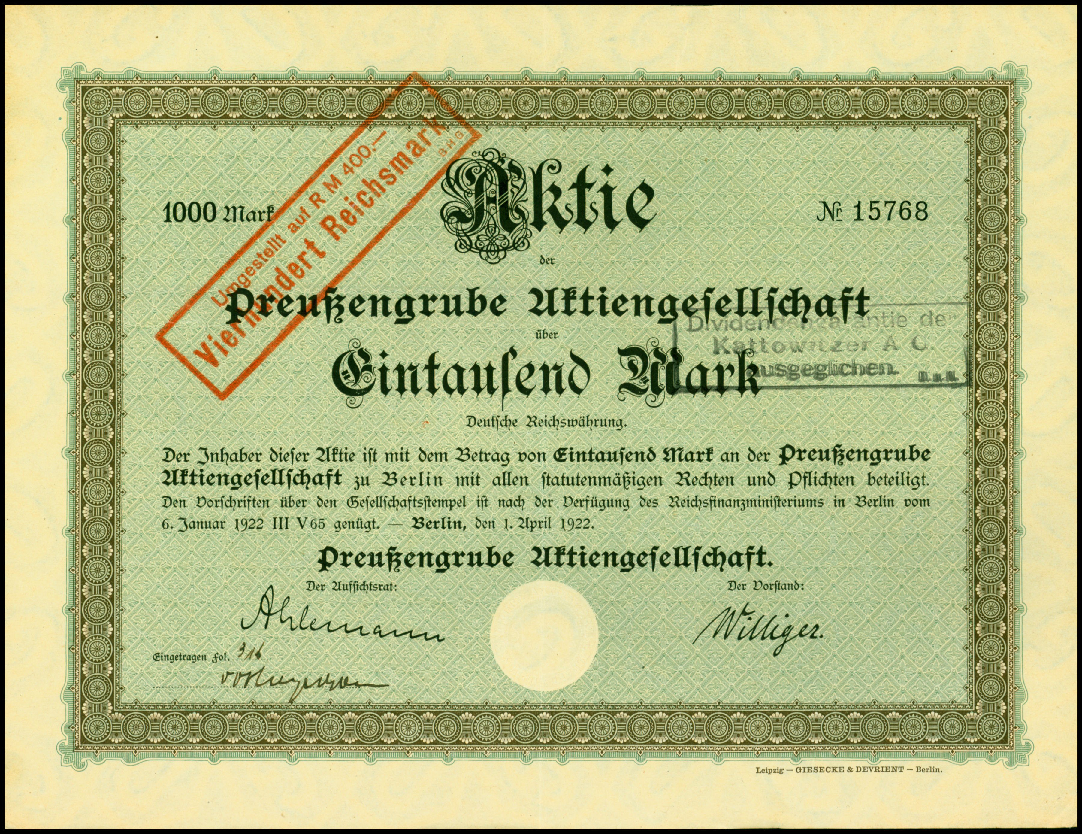 Share of the Preußengrube AG, issued 1. April 1922